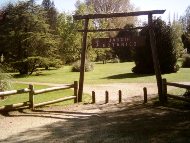 Gate of Universidad Austral's Botanic Garden, Valdivia, Chile